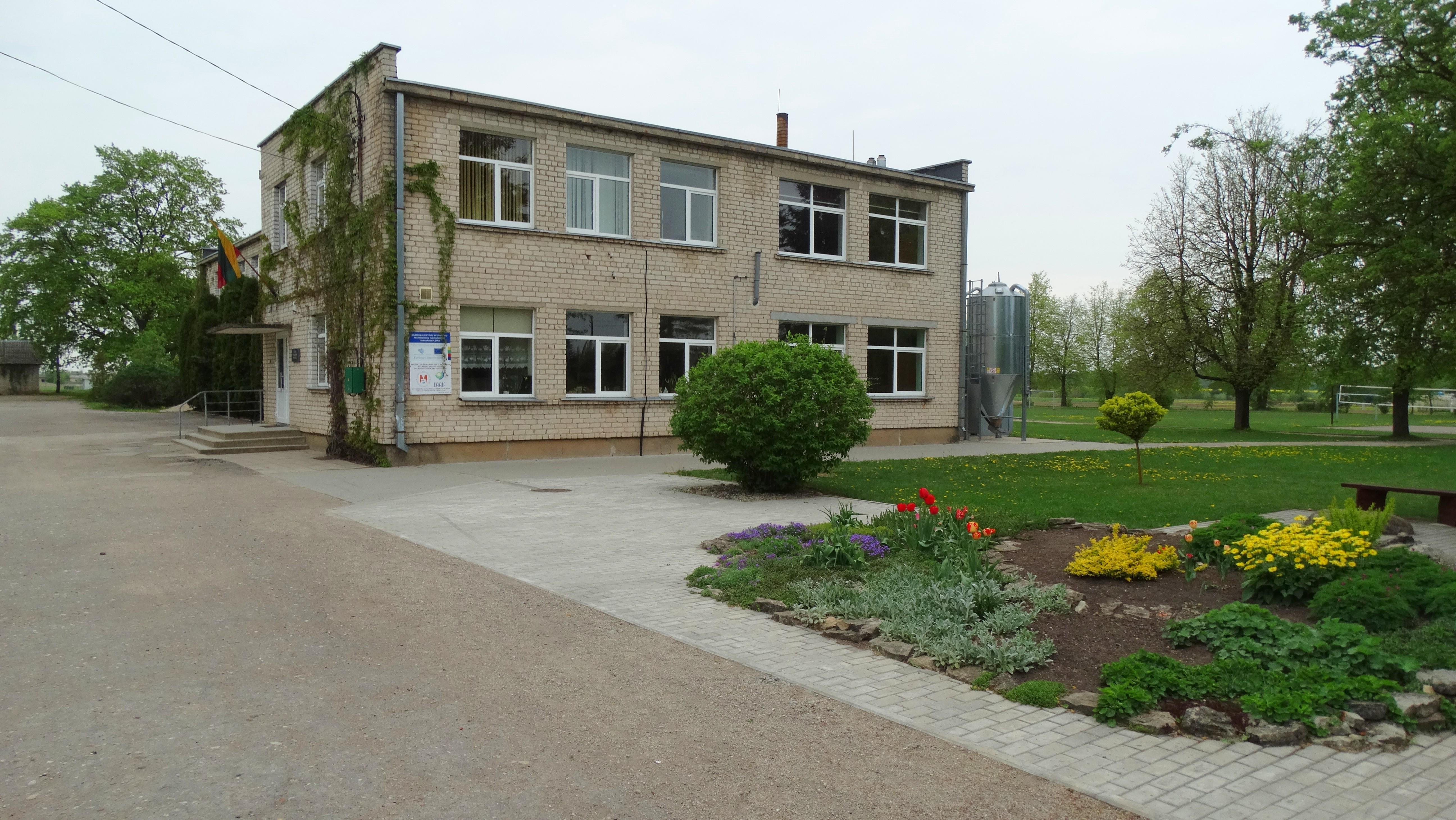 Basic school, Balsiai, Pakruojis district, Lithuania